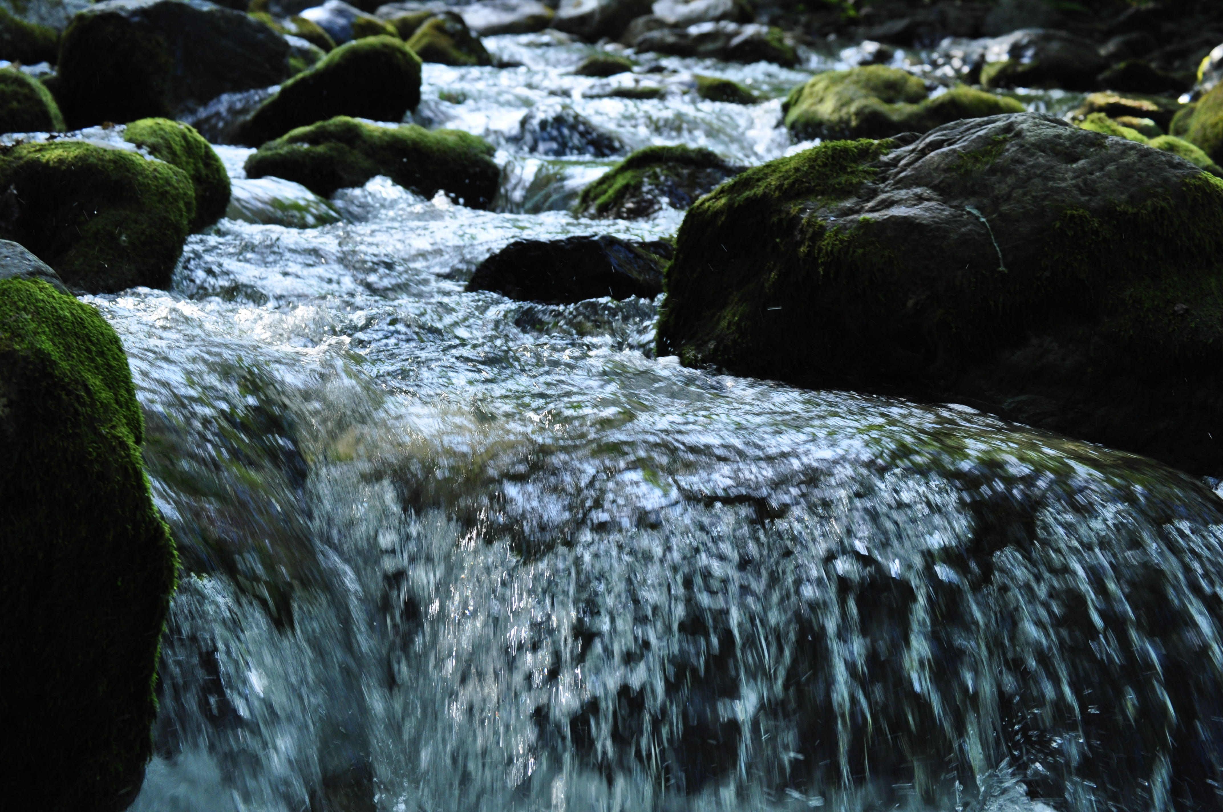 gjocaj